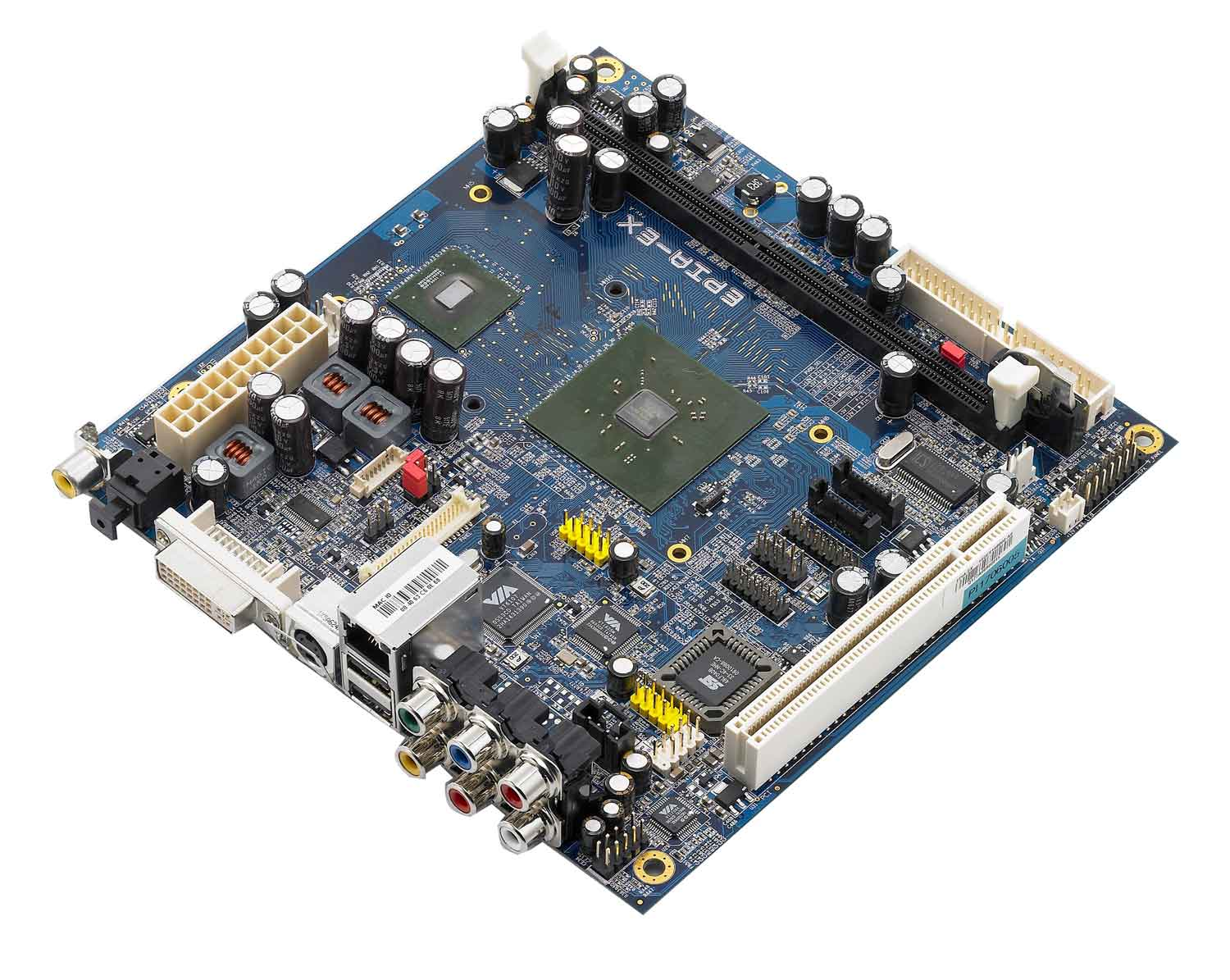 Launched in December of 2006, the VIA EPIA EX Mini-ITX features a 1.0GHz VIA C7 CPU and was the first board to feature the CX700M2 MSP. The CX700M2 MSP integrated the VIA UniChrome™ Pro II 2D/3D graphics core.